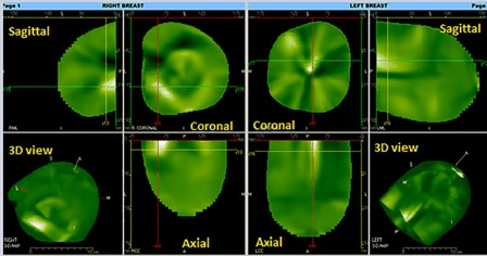 The 2D and 3D image in CTLM workstation